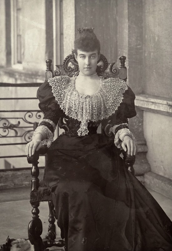 Helene of Orléans, Duchess of Aosta (1871-1951)